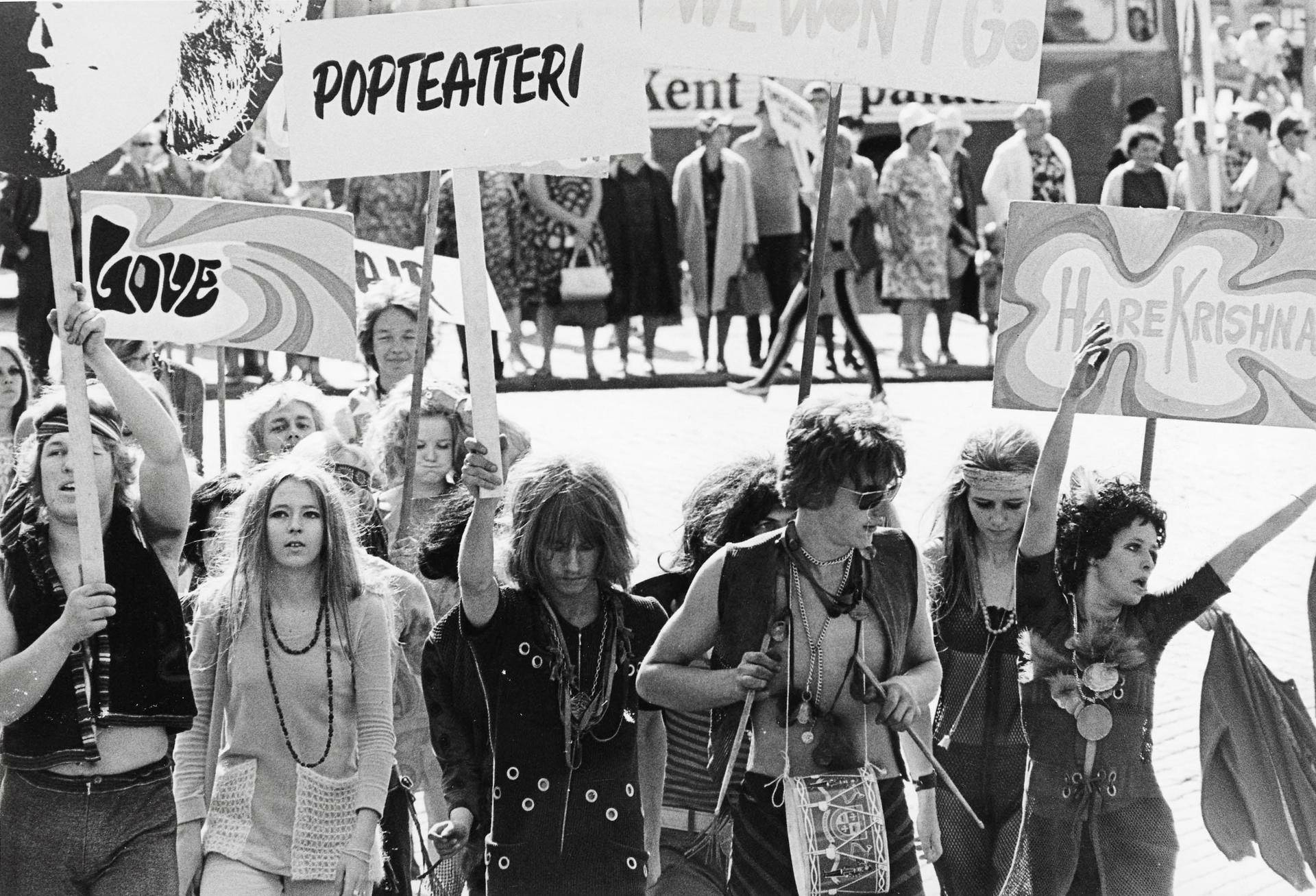 Photograph of promoting the musical Hair in Finland by the cast of Popteatteri, Helsinki